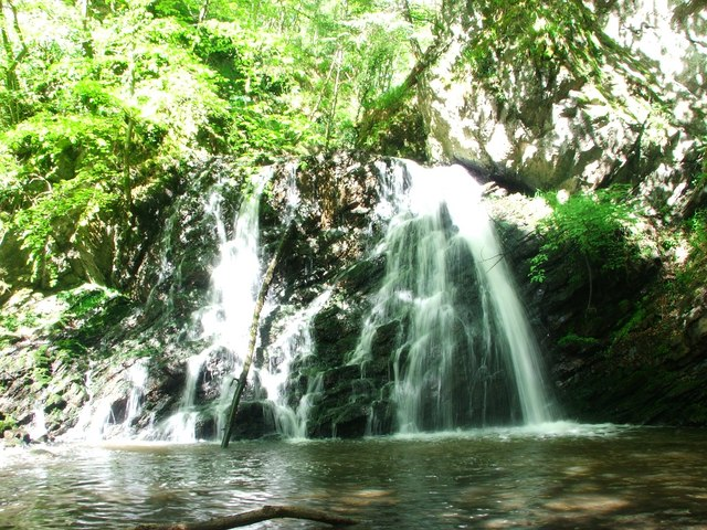 Waterfall in Fairy Glen. The glen gets its name from an old tradition. Every Sunday, the children of the village would gather in the glen, at the site of a spring. They would tidy up the pool area around the spring and sprinkle flower petals on it as a gift to the fairies. The fairies in return would ensure a good clean supply of water for the village.